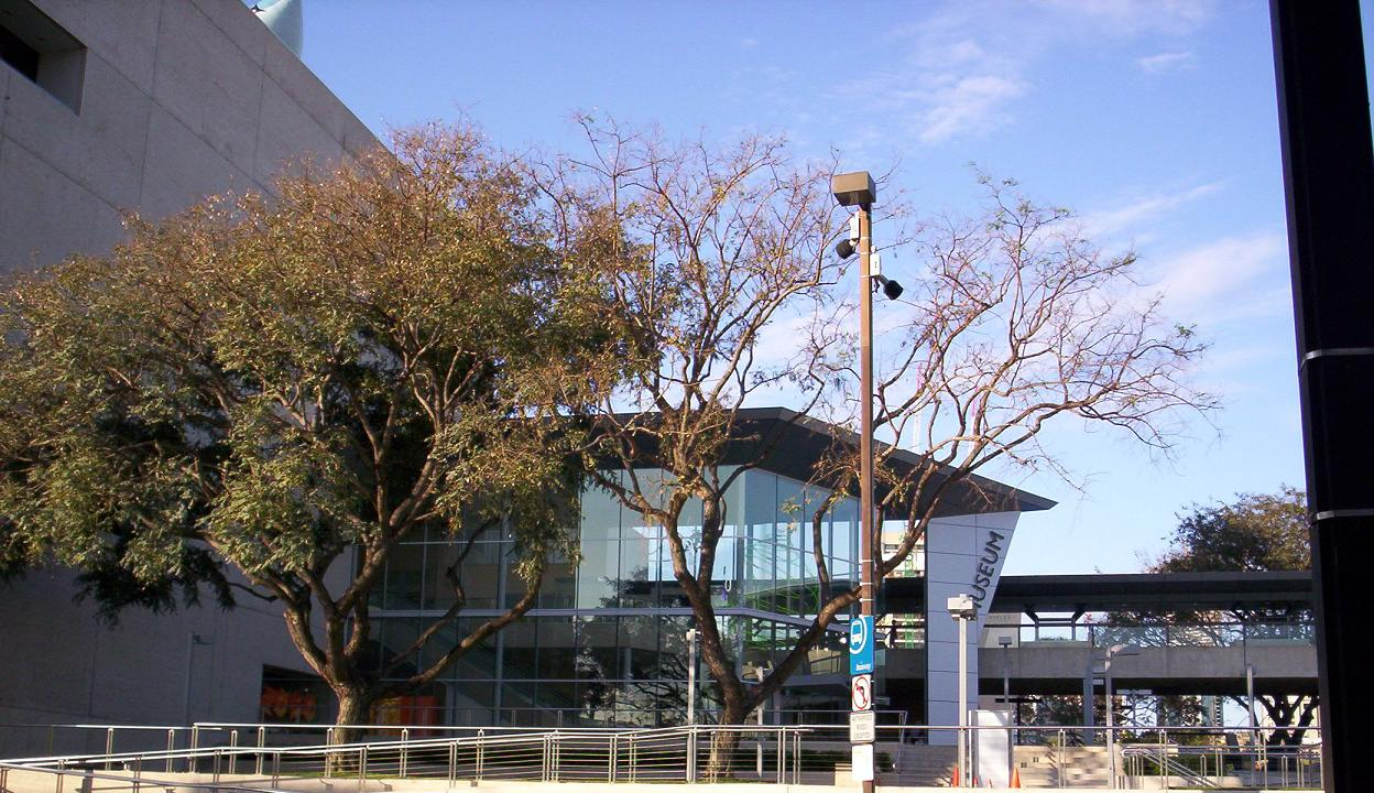 Queensland Museum and walkway to bus station and QPAC (Queensland Performing Arts Centre).